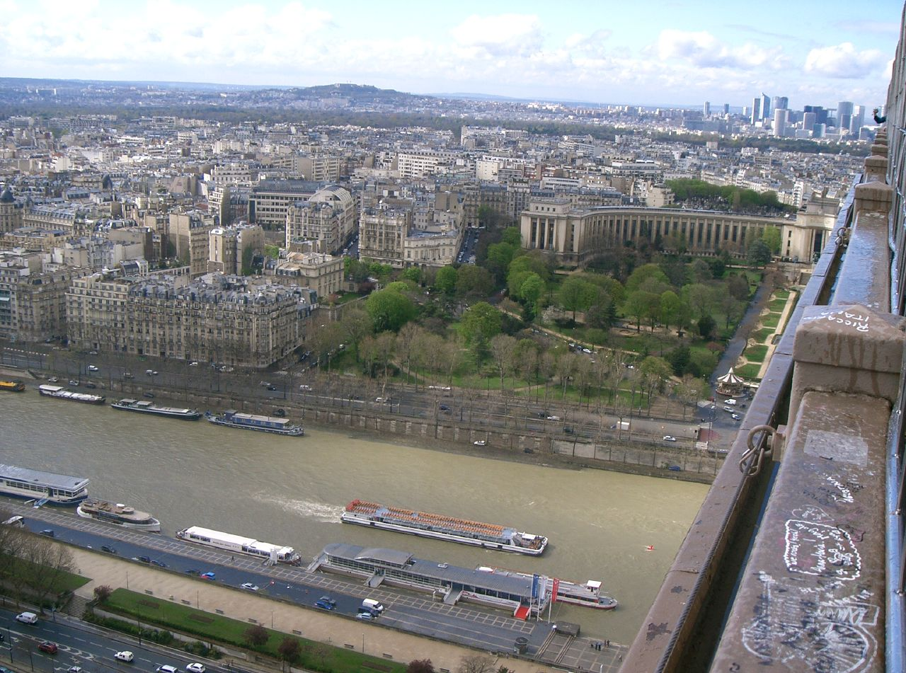 Palais de Chaillot just visible to the left of the edge of the Eiffel Tower (2R observation platform) Skyline, from left to right : mont Valérien and skyscrapers at La Défense.